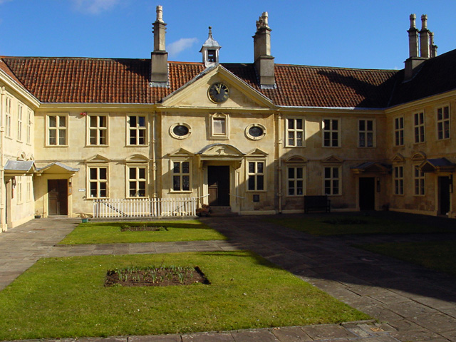 Colston's Almshouse Looking east through the railings ST5873 : Looking down St Michael's Hill past the Almshouse at Colston's Almshouse which was built in 1691. It was founded by Edward Colston, and the 12 men and women residents had to be born in Bristol and attend the chapel regularly.